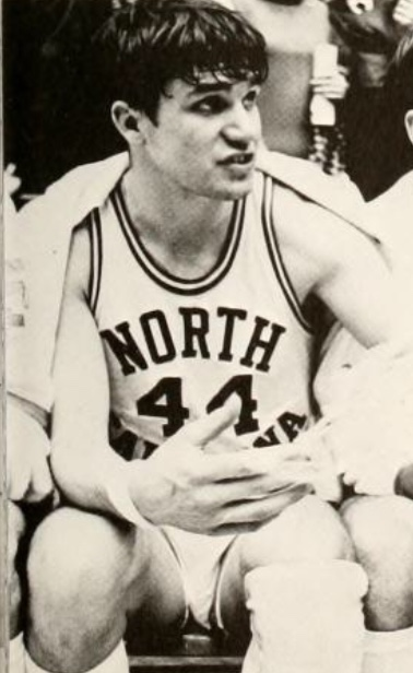 University of North Carolina Tar Heels basketball player Larry Miller from the 1968 “Yackety Yack” yearbook.